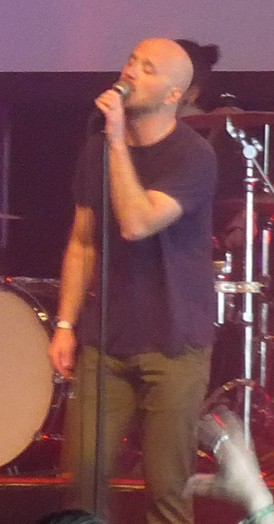 Musician Dan Barrett performing a show in 2019